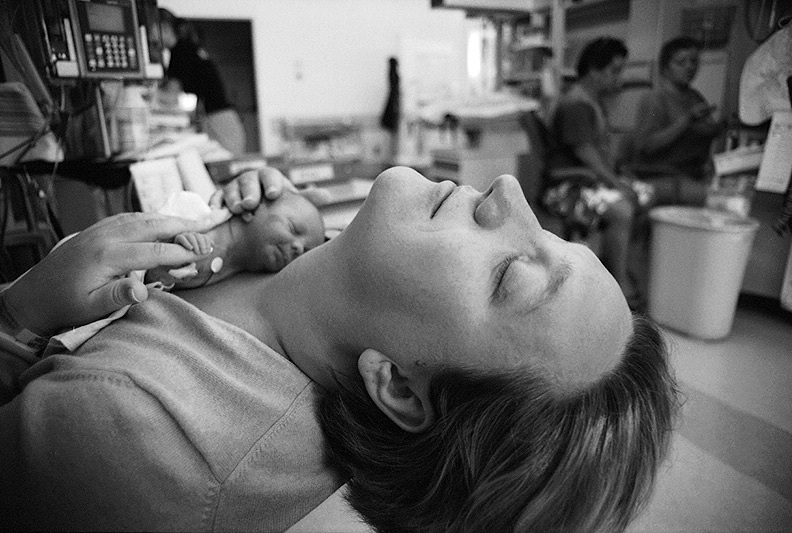 A new mother holds her baby who was born 10 weeks premature at Kapiolani Medical Center in Honolulu, Hawaii